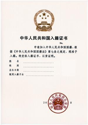 Naturalization certificate of the PRC sample